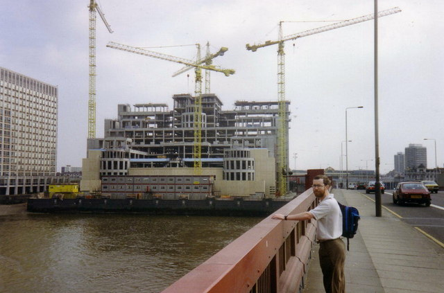 MI6 HQ unfinished. SIS Building under construction.